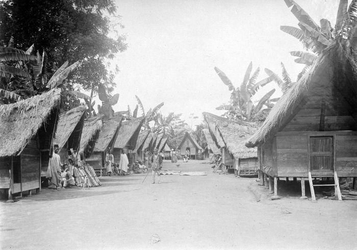 Toba Batak village view